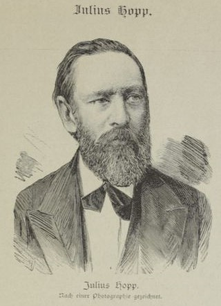 Austrian composer, conductor and librettist Julius Hopp (1819-1885), an engraving after a photograph, published with his obituary in the Neue Illustrierte Zeitung